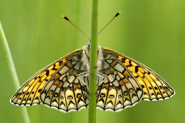 Picture taken in Commanster, Belgian High Ardennes . Species: Boloria eunomia